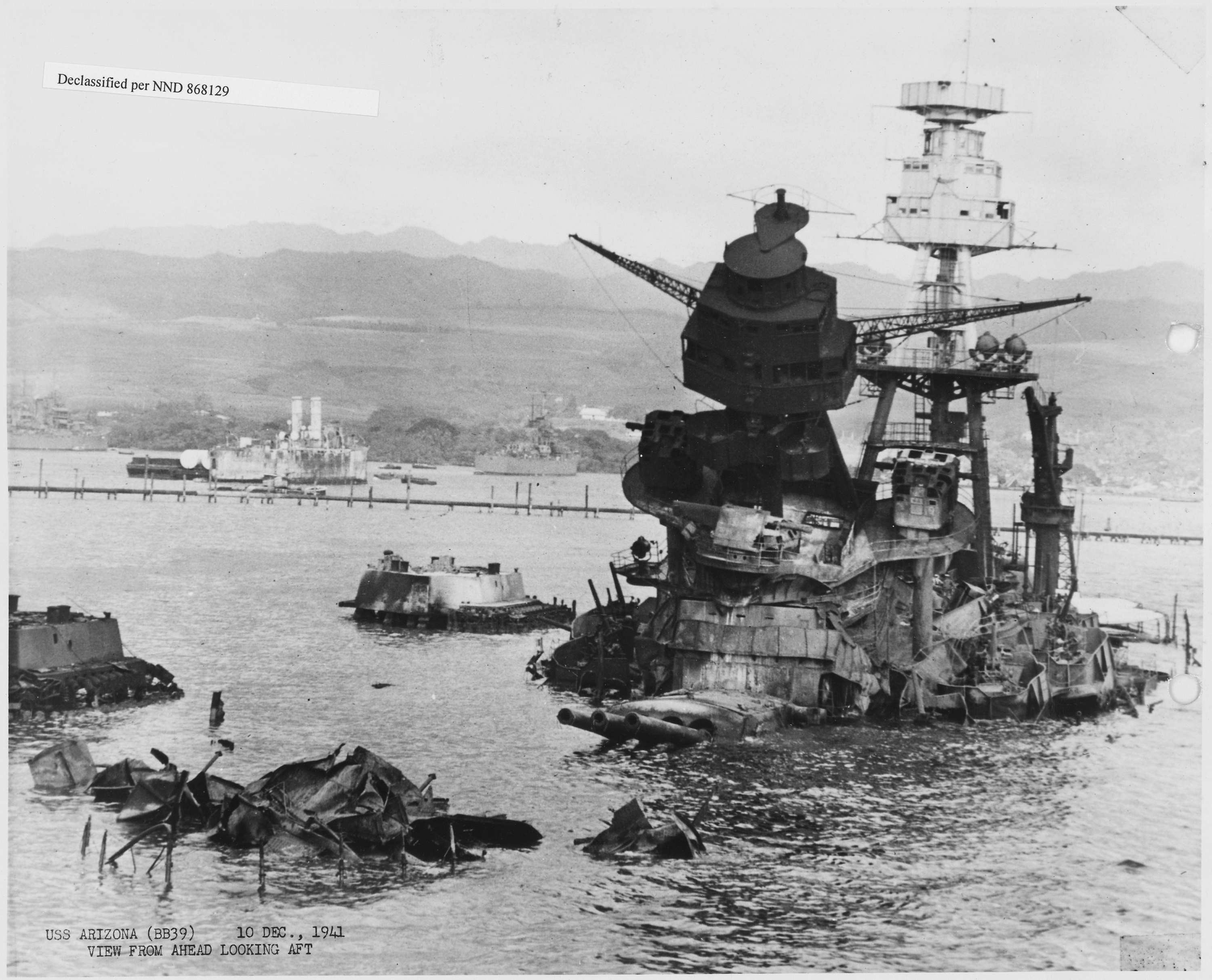 Scope and content: This is one of a collection of photographs of salvage operations at Pearl Harbor Naval Shipyard taken by the shipyard during the period following the Japanese attack on Pearl Harbor which initiated US participation in World War II. The photographs are found in a number of files in several shipyard records series.